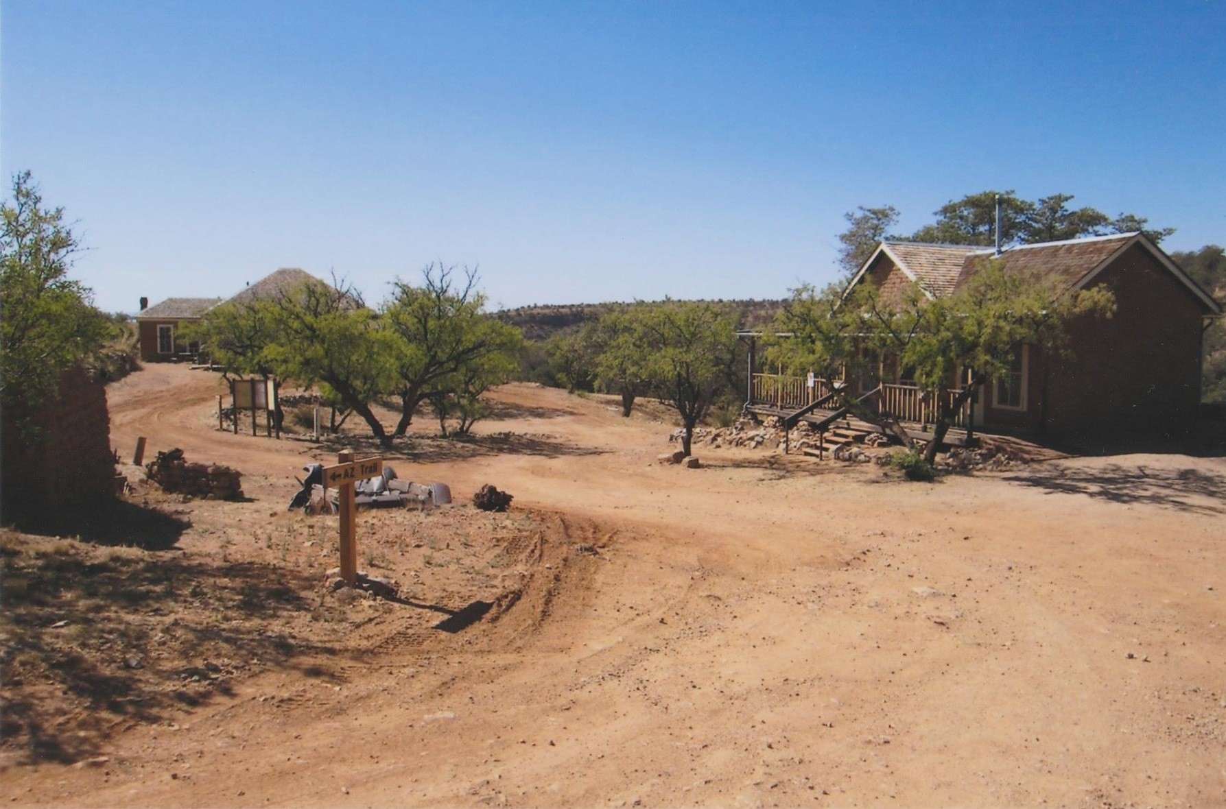 Kentucky Camp, Arizona, with the ruins of the barn at the far left, the hotel/office building in the back behind the trees, and one of the adobe houses at the right.